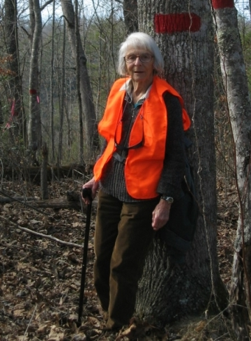 Liane Russell, on the Cumberland Plateau, near Big South Fork Liane Russell